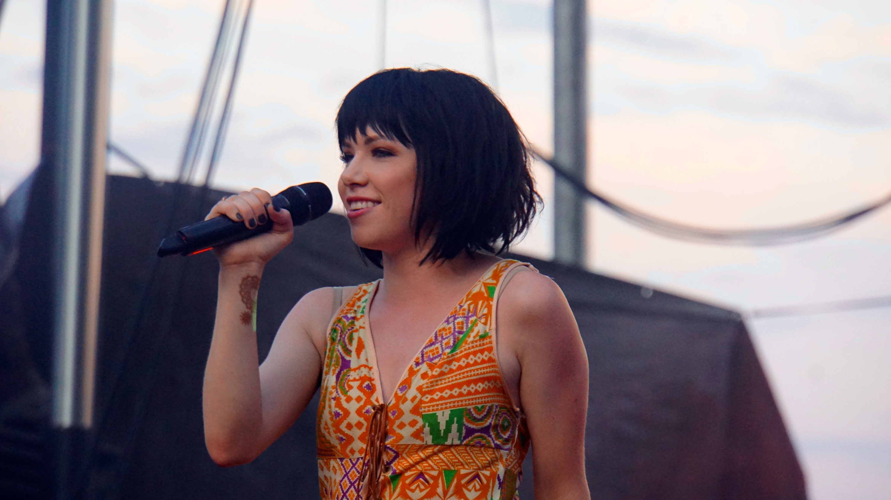 Featuring Carly Rae Jepsen and Wilson Phillips Kaiser Permanente is a Gold Sponsor of Capital Pride and a Platinum Sponsor of Capital TransPride in our nation's capital